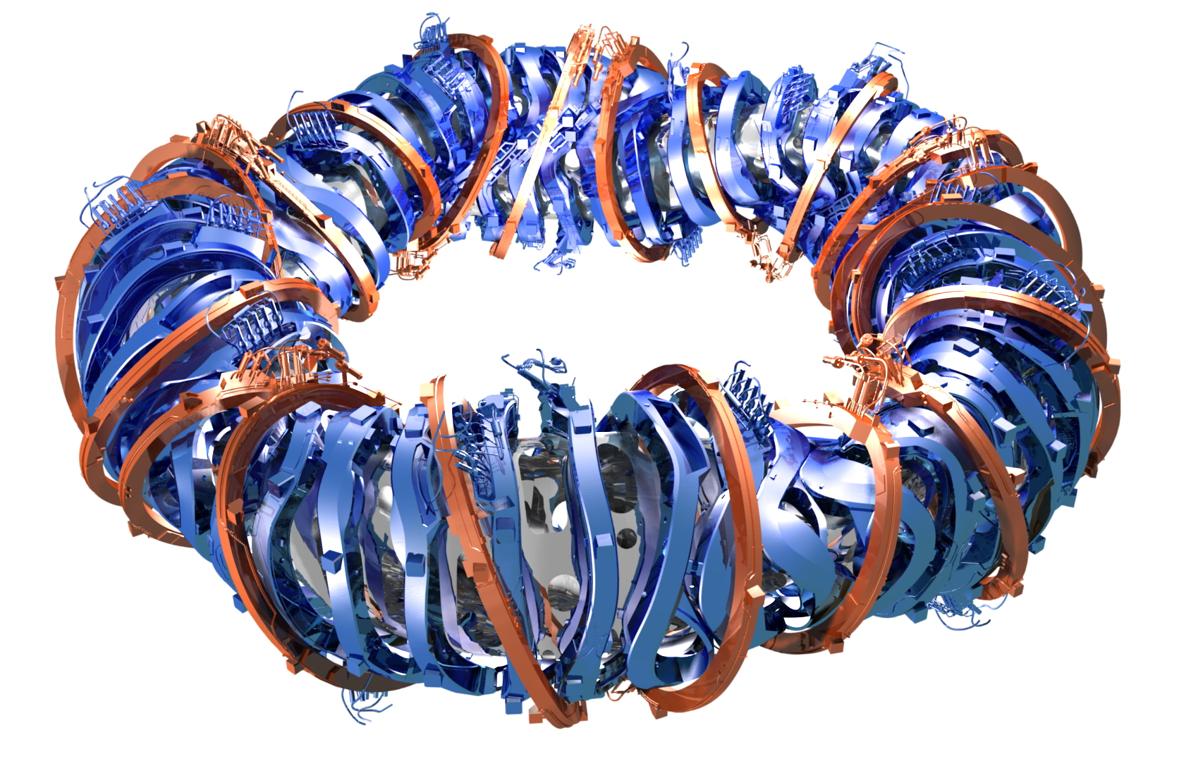 Schematic view of the Wendelstein 7-X superconducting magnets system with non-planar coils (blue) and planar coils (brown).